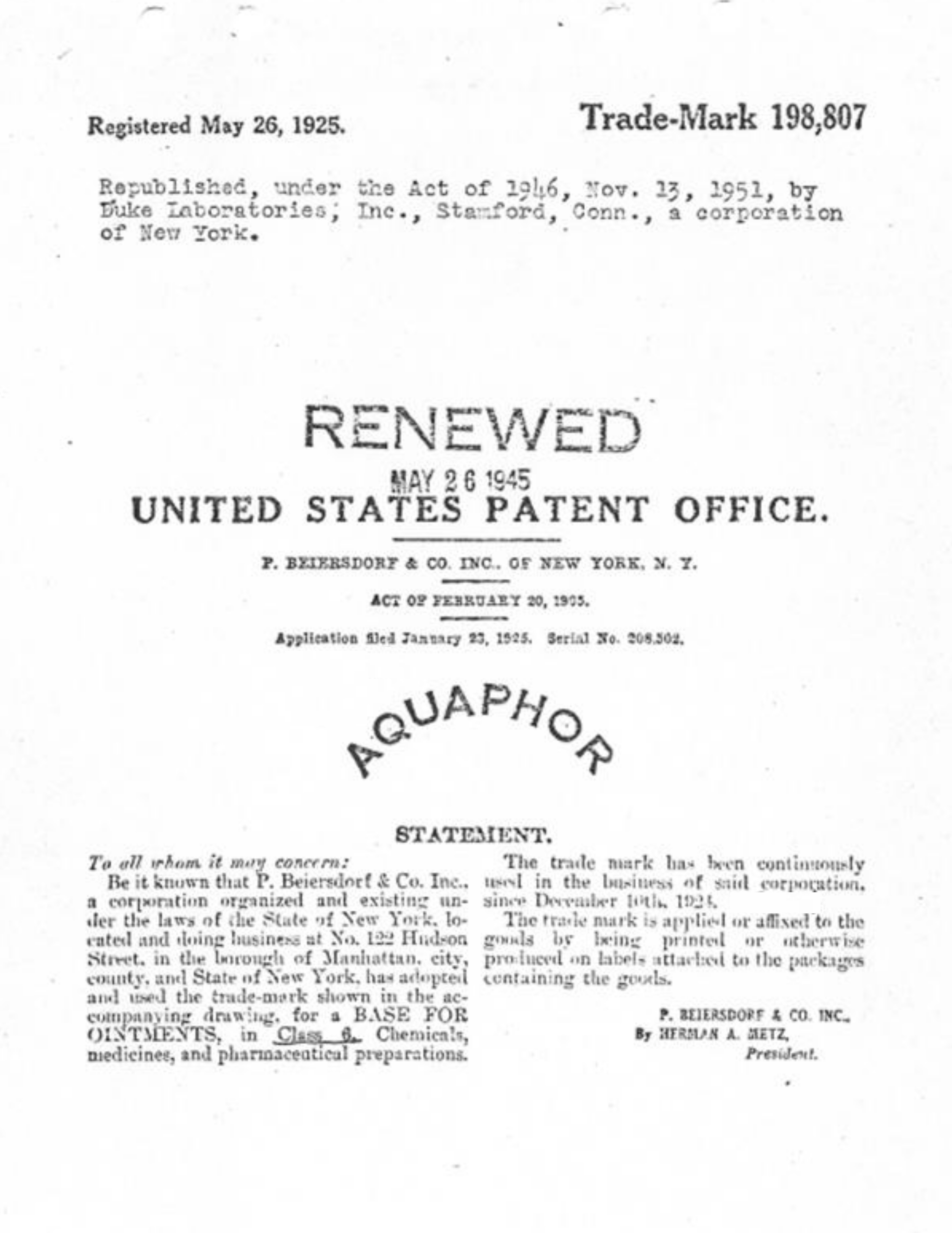 United States Patent and Trademark Office grant of first trademark for Aquaphor to Beiersdorf, trademark no. 198,807, dated May 26, 1925.